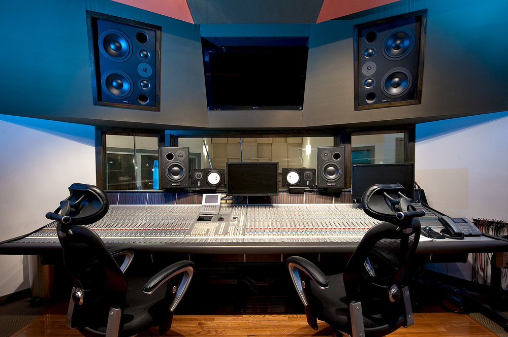 The control room of the mezzanine studio, featuring an SSL 4000+G.